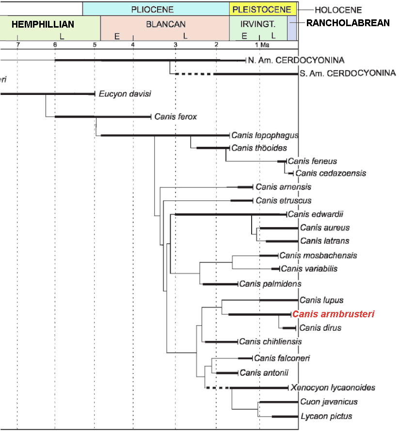 Diagram highlighting existence of Canis armbrusteri